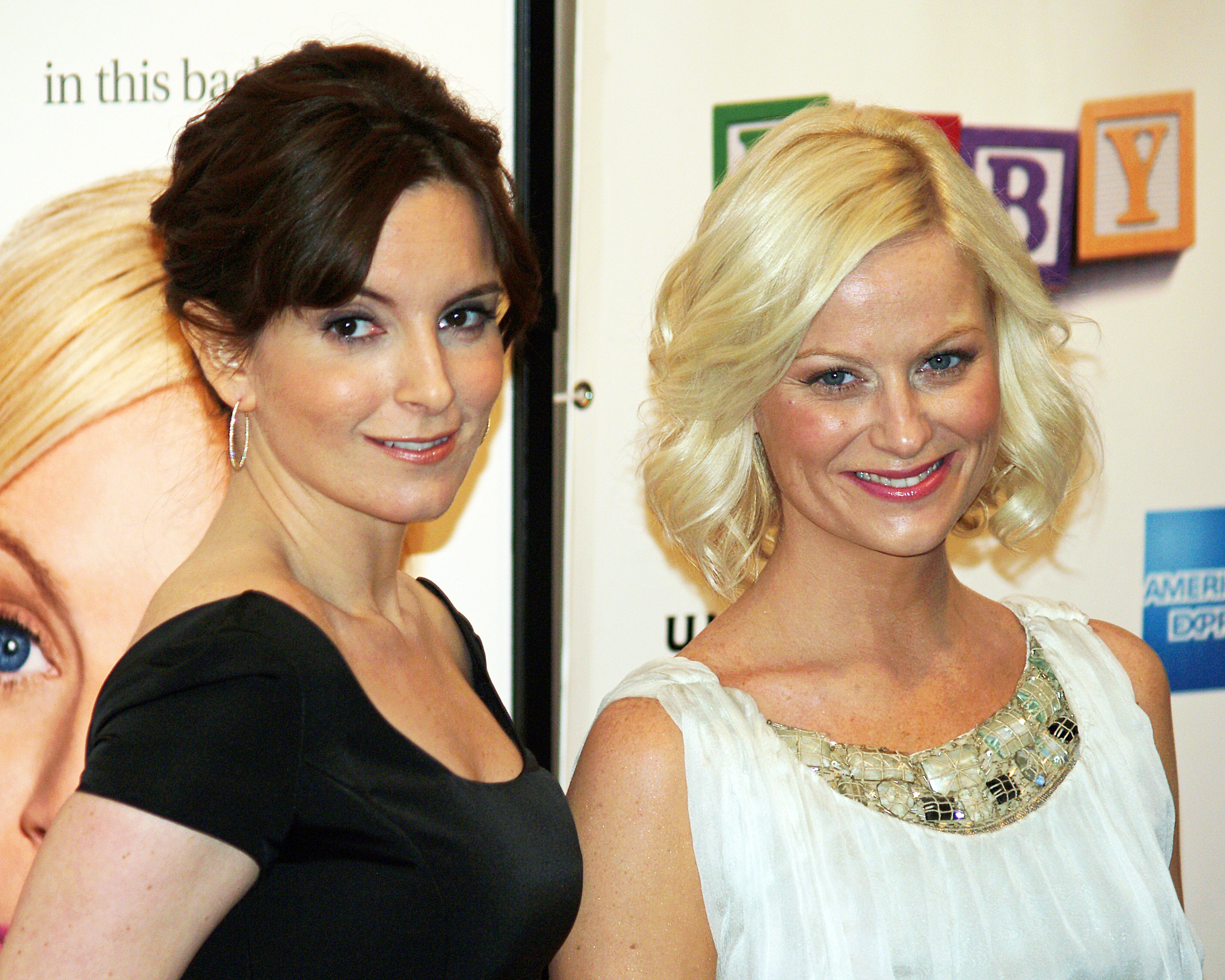 Amy Poehler and Tina Fey at the premiere of Baby Mama in New York City at the 2008 Tribeca Film Festival.